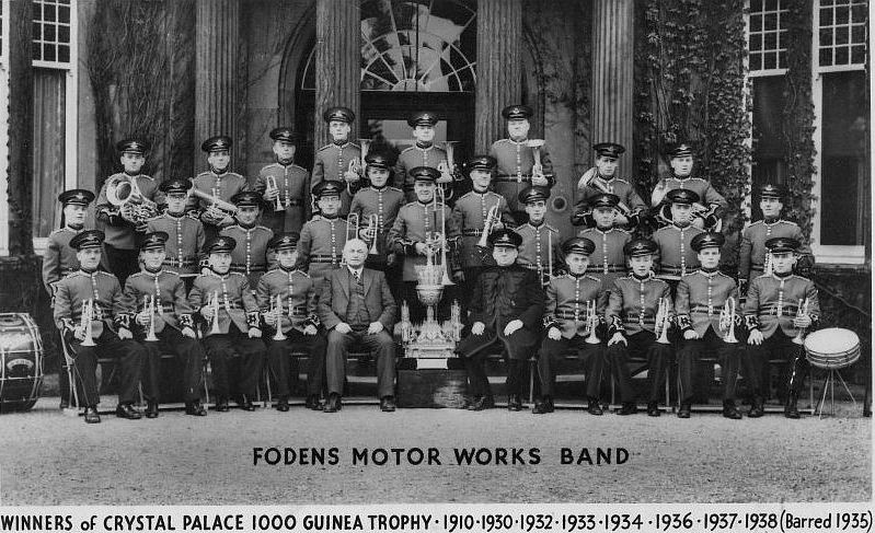 Fodens Motor Works Band circa 1938. Caption: Winners of the Crystal Palace 1000 Guinea Trophy: 1910, 1930, 1932, 1933, 1934, 1936, 1937, 1938 (barred 1935) Band Members: Musical Director: F. Mortimer Principal Cornet: H. Mortimer Soprano Cornet: C. Cook Cornets:W. Lawton, F. Wright, S. Garrett, E. Spurr, J. Hodgkinson, R. Moores, R. Shepley, E. Statham Flugal Horn: H. Shergold, A. Webb Tenor Horns: J. Cotterill, F. Sowood Baritones: A. Statham, A. Webb, Jr. Euphoniums: D. Morris, J. Morby Trombones: J. Inger, E. Westwood, J. Moores Basses: J. Poole, H. Hardy, R. Mortimer, E. Swindles Drums and Effects: W. Illingworth Vocalist: A. Doorbar Photographer: unknown. Copyright ends 70 years after publication, i.e. circa 2008.(ref)